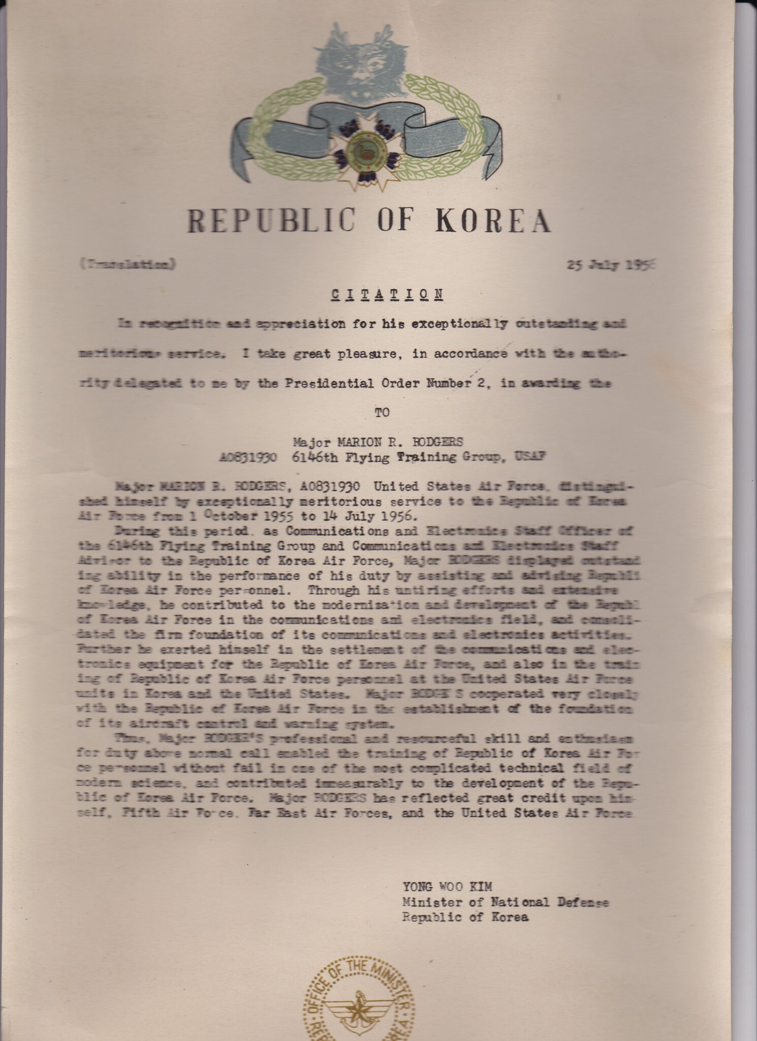 Recognition bestowed upon Major Marion Rodgers by Yong Woo Kim, Minister of National Defense, Republic of Korea, July 25, 1956.